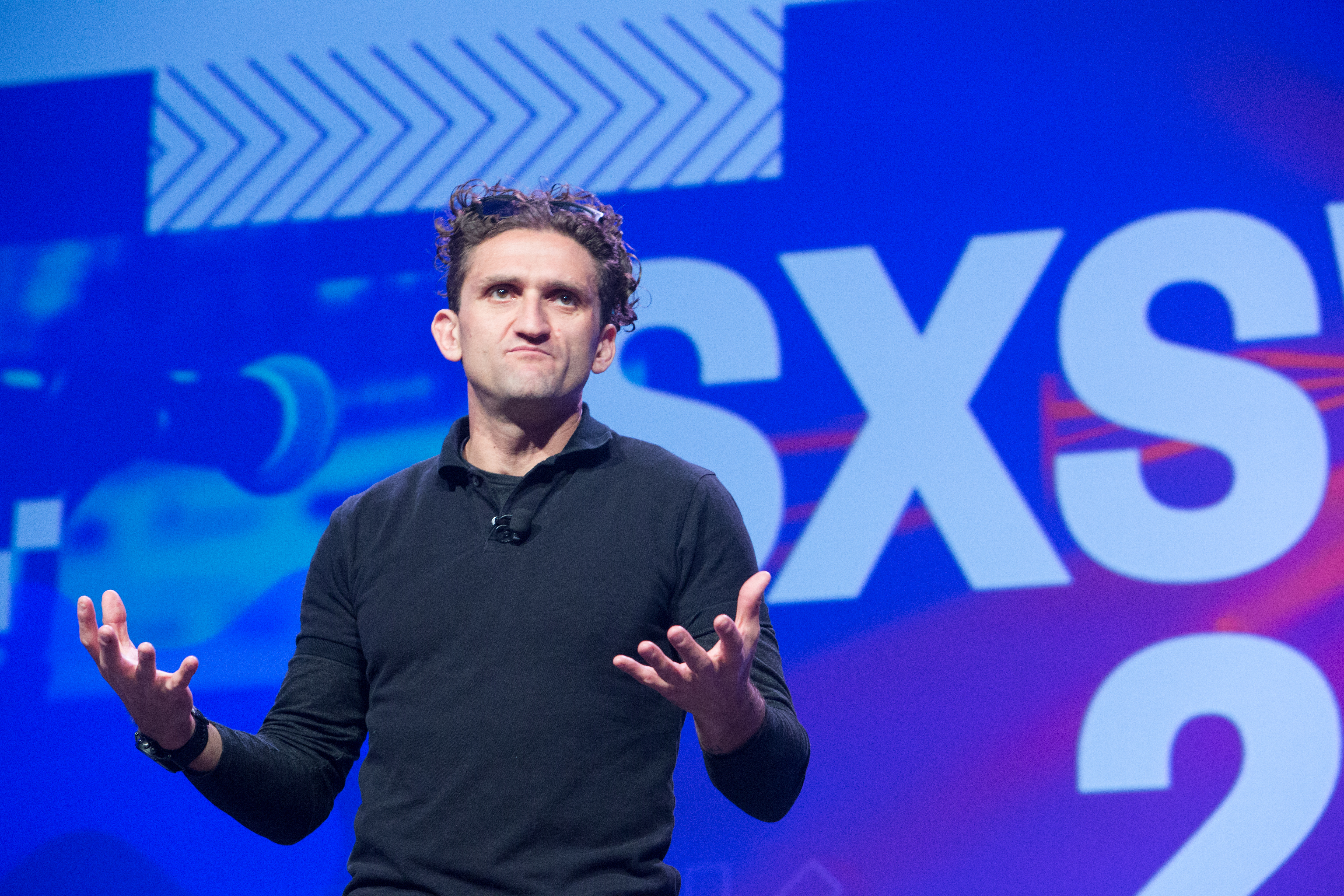 Casey Neistat's talk From YouTube Star to Media Company Co-Founder Photo: Ståle Grut/NRKbeta